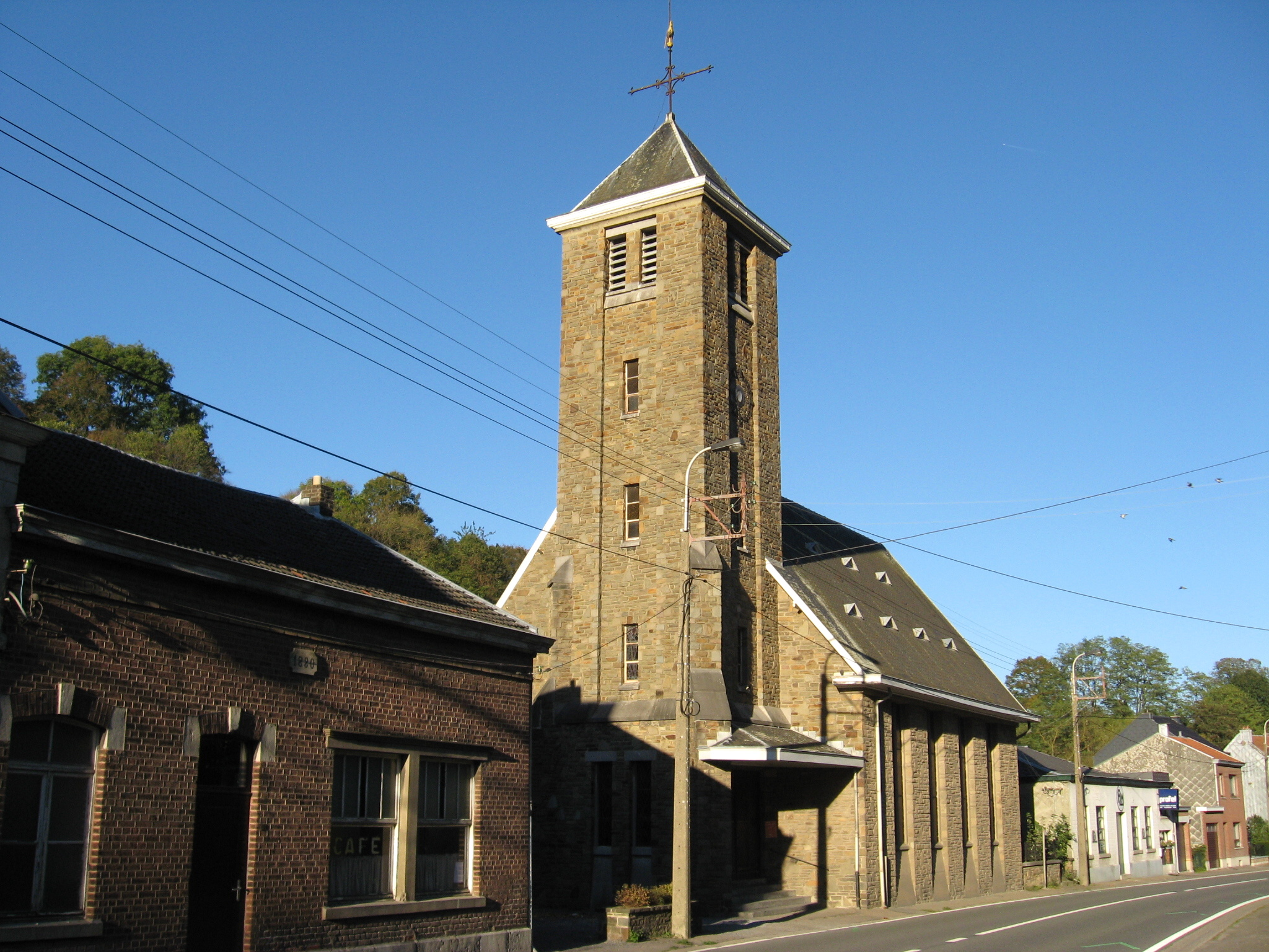 Church of Saint John the Baptiser in Surdents, Stembert, Verviers, Liège, Belgium